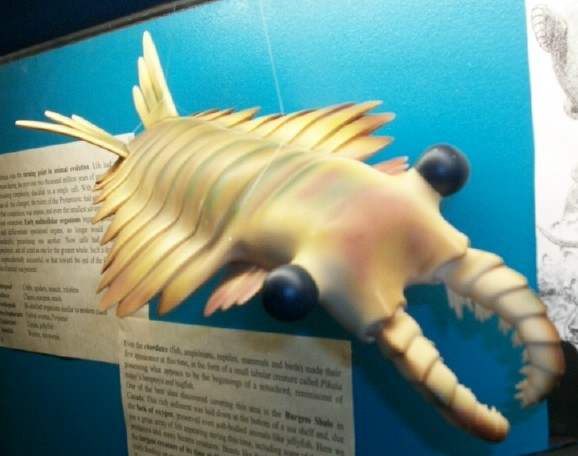 Anomalocaris model at Dinosaur Museum, Canberra, Australia.